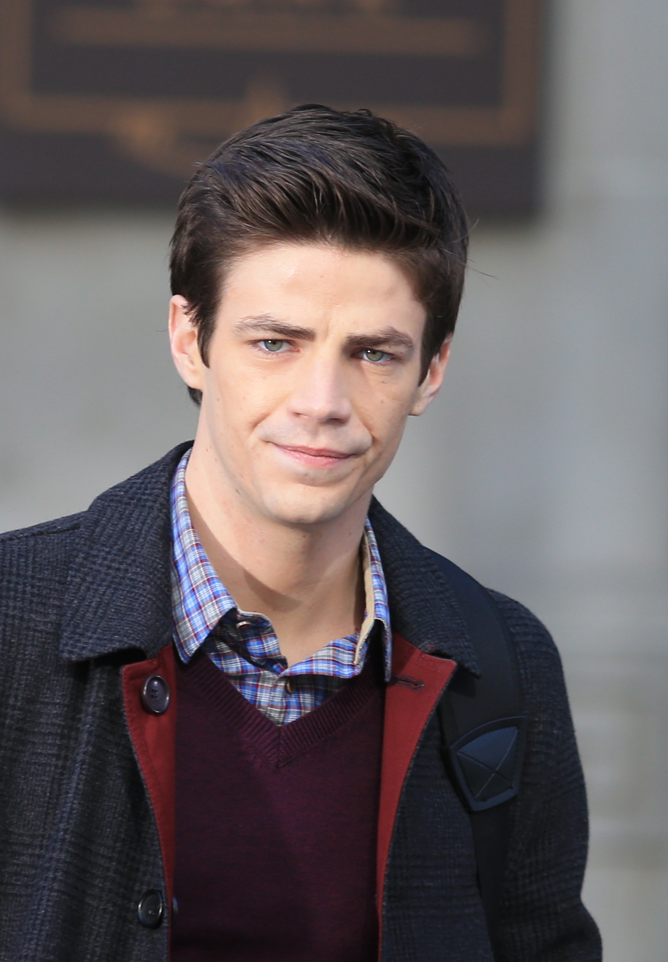 Grant Gustin on the sets of "The Flash", Vancouver, March 12, 2014